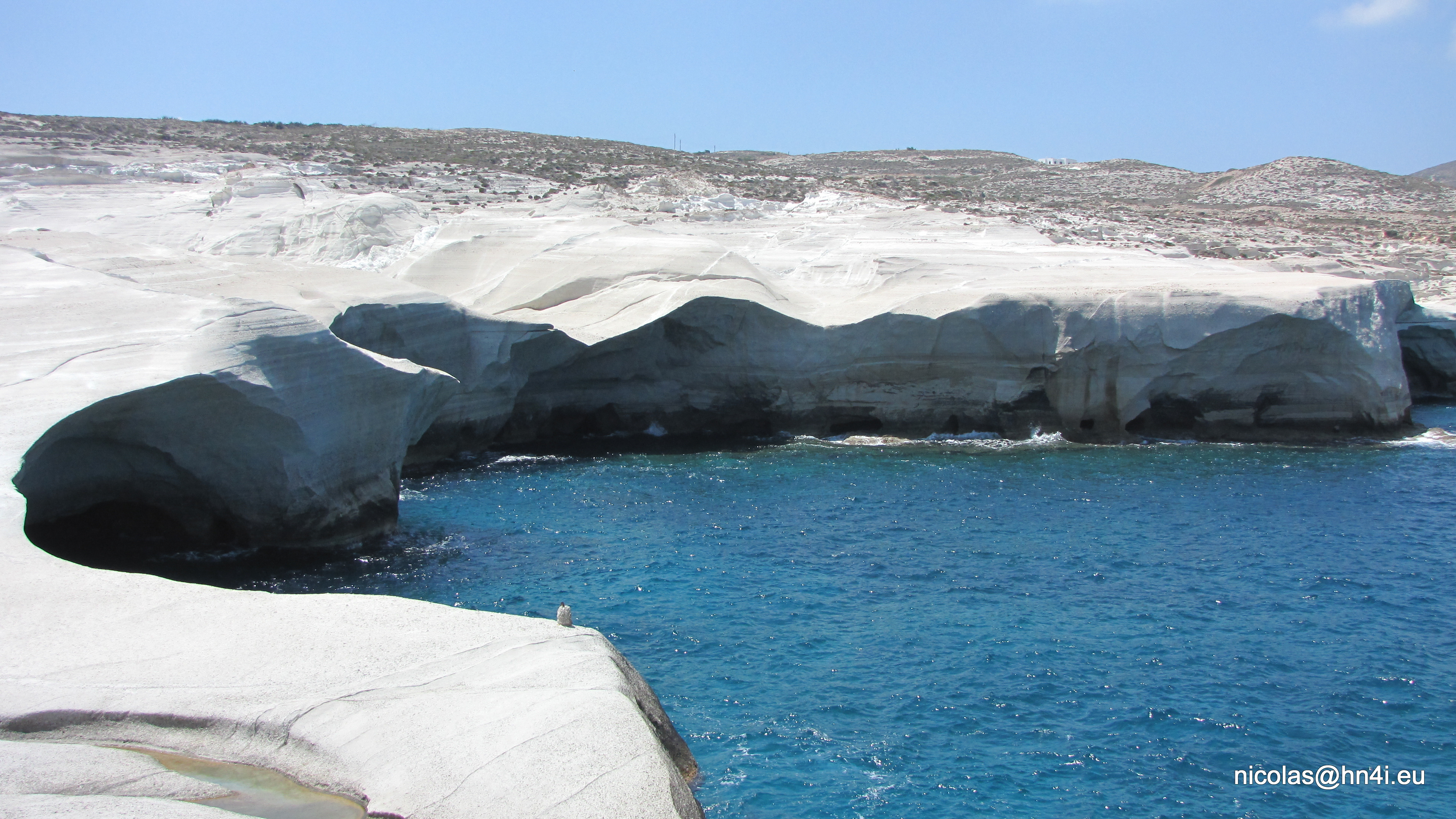 This is a photography of Natura 2000 protected area with ID GR4220020